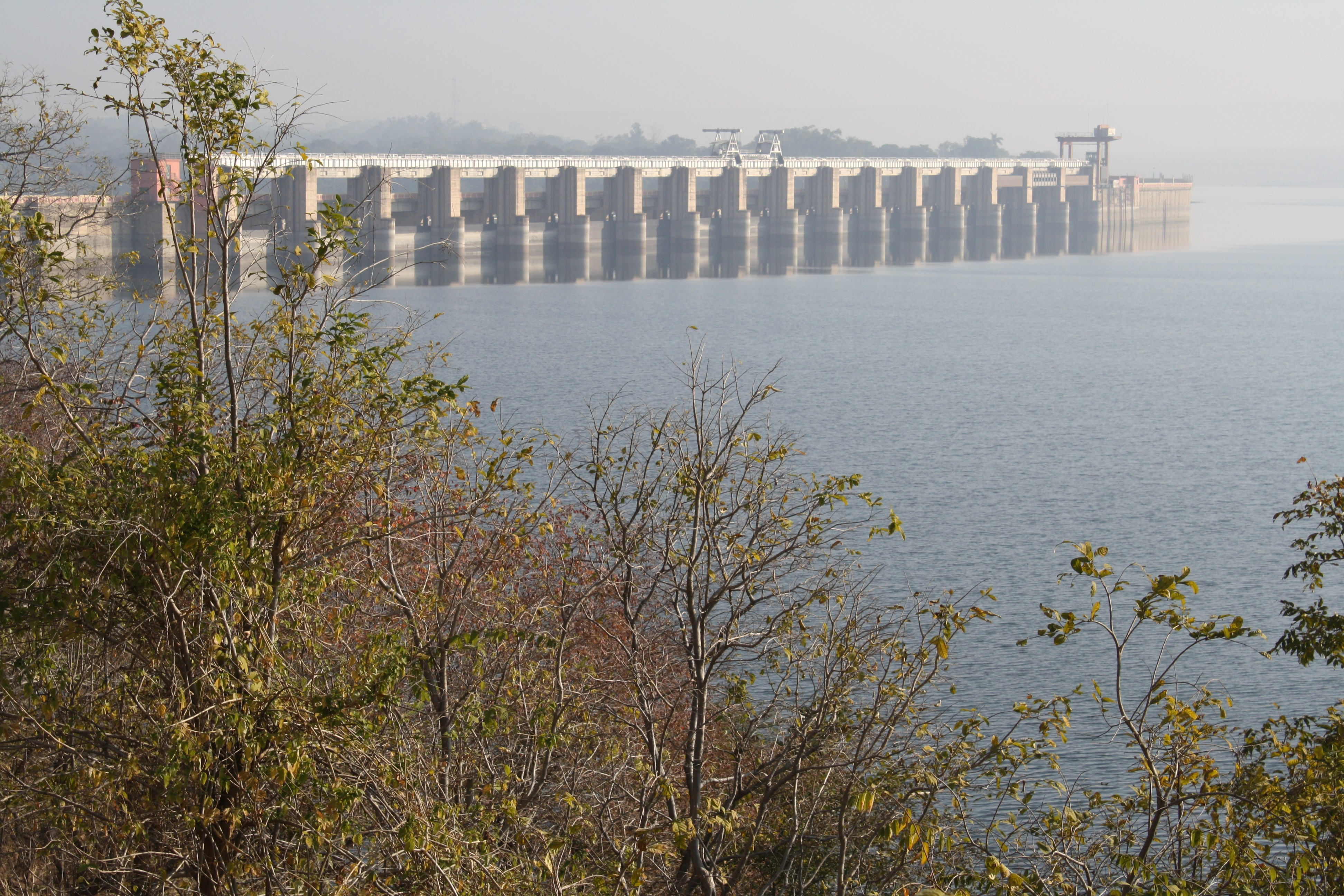 View of Ranapratap Sagar Dam from upstream side